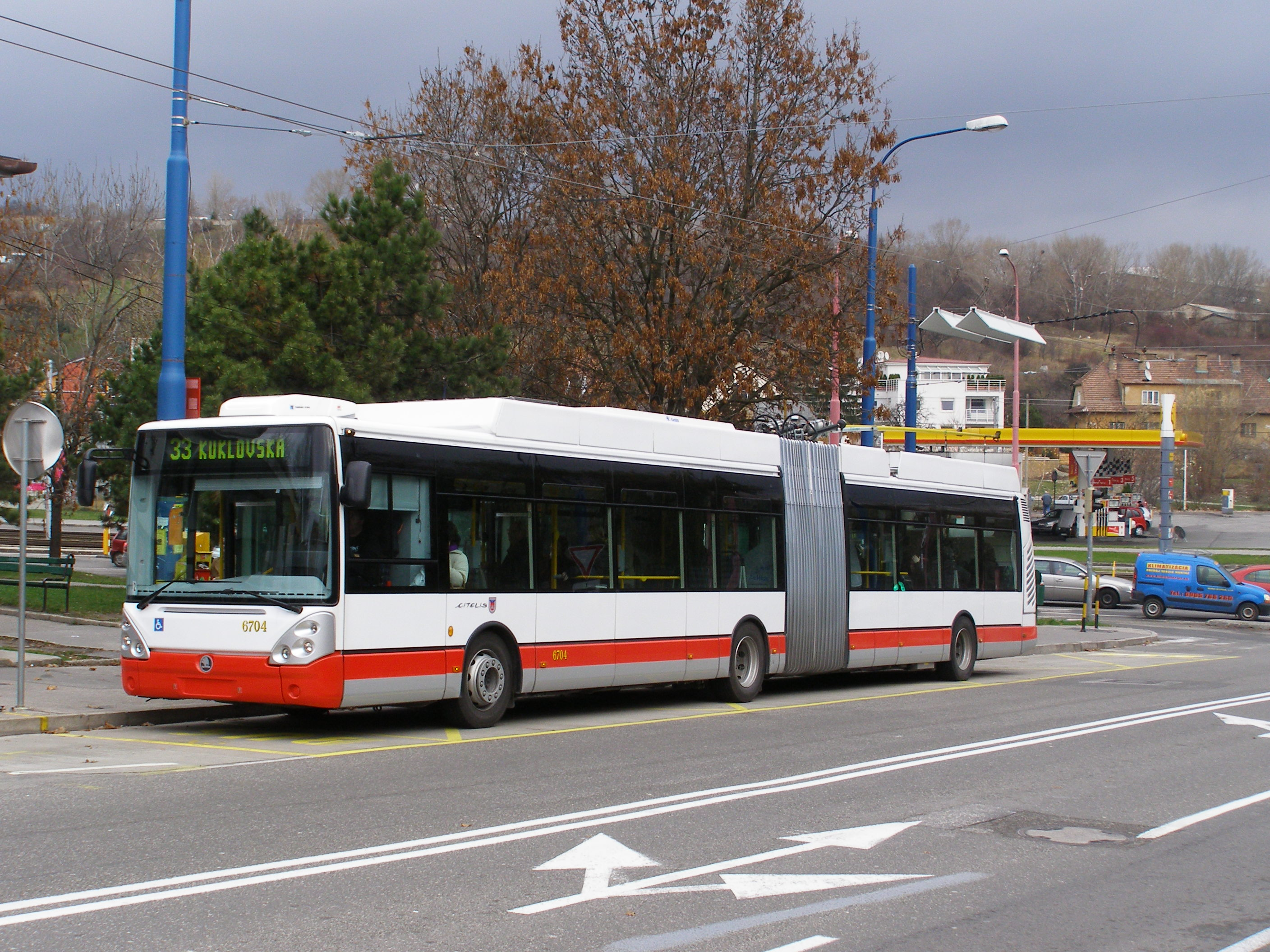 Trolleyus with diesel-electric aggregate in Bratislava